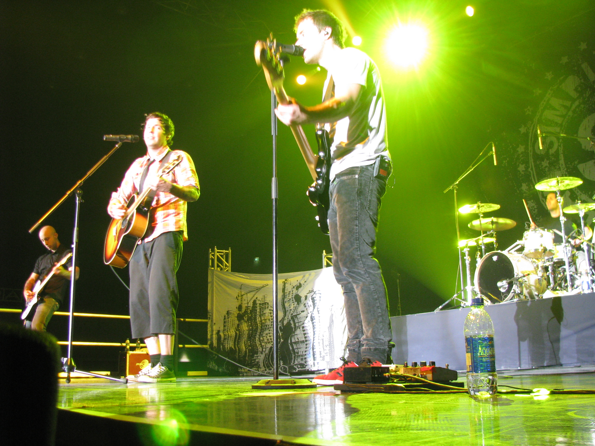 Simple Plan performs as a four-piece in Dubai, December 5, 2008